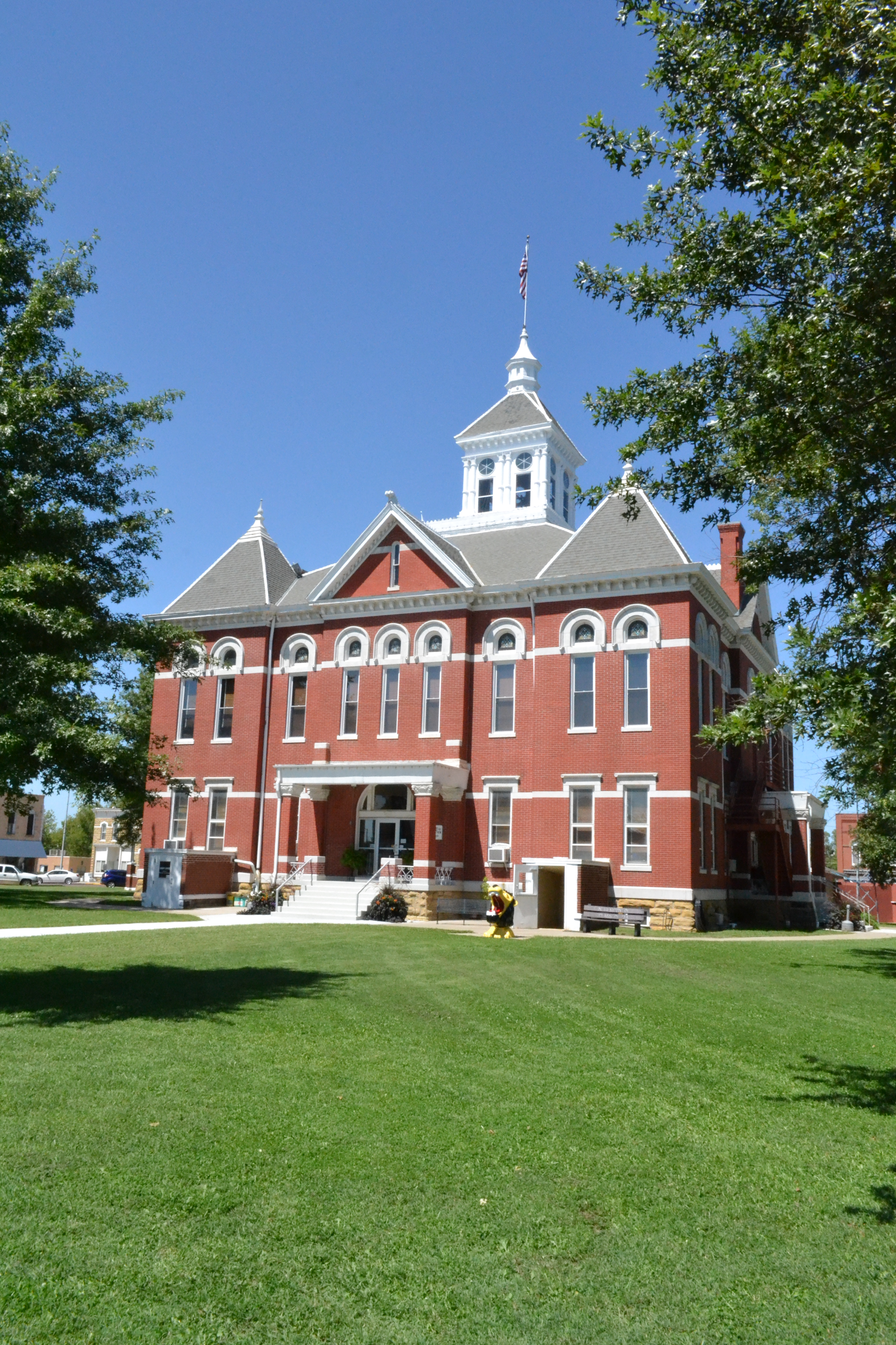 Woodson County Courthouse in Yates Center, KS. Listed on the National Register of Historic Places.